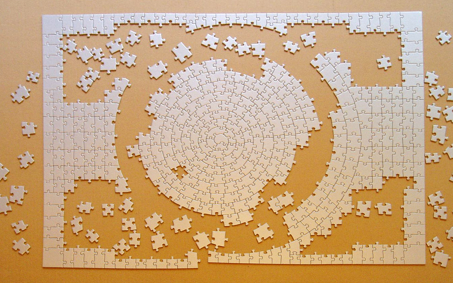 Puzzle Krypt